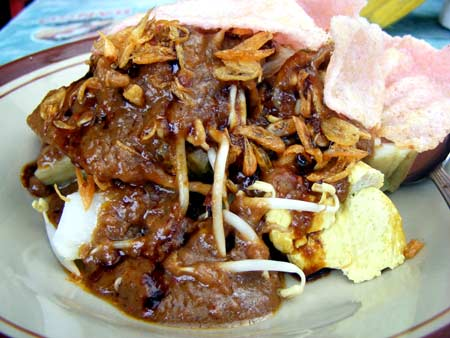 Kupat Tahu Gempol, tofu and ketupat in peanut sauce, specialty of Gempol Market, Bandung.